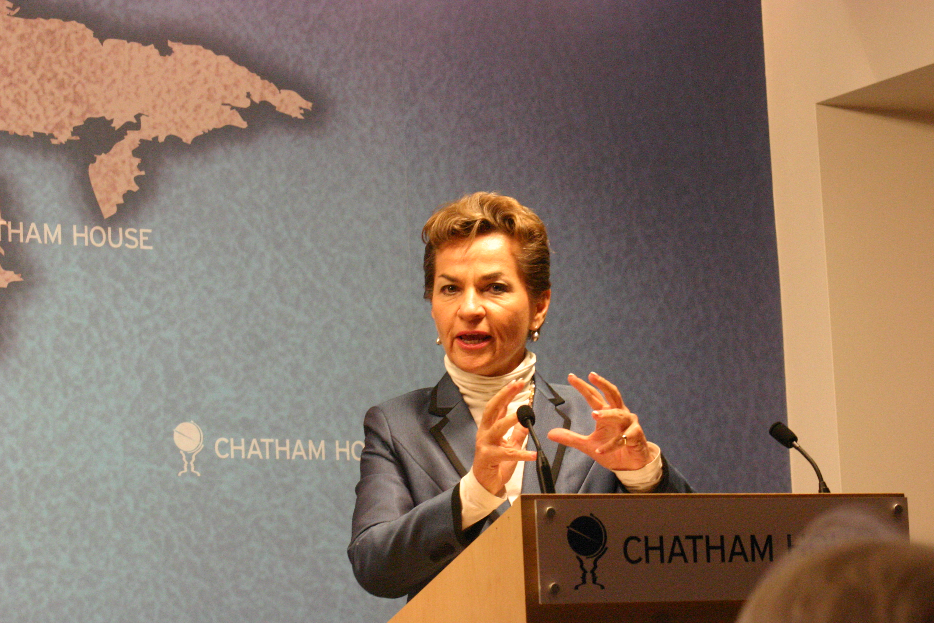 Climate Change 2012 Conference, 15-16 October